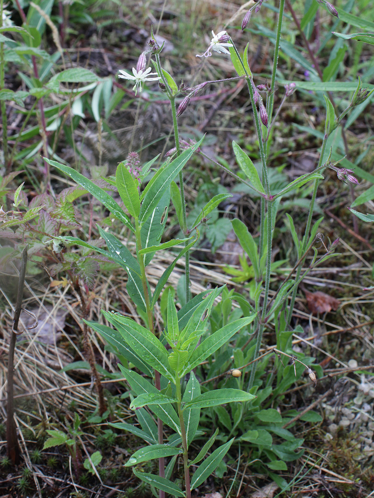 Caryophyllaceae, Silene nutans